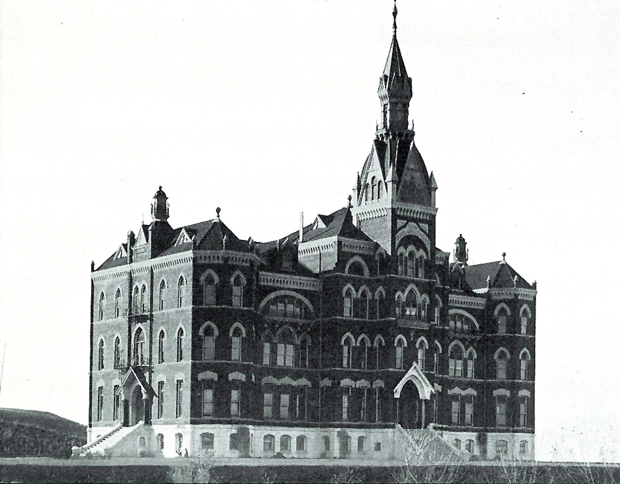 Photo of the original University of Idaho Administration building, taken around 1900. The building would burn to the ground in 1906 to be replaced by the current structure.